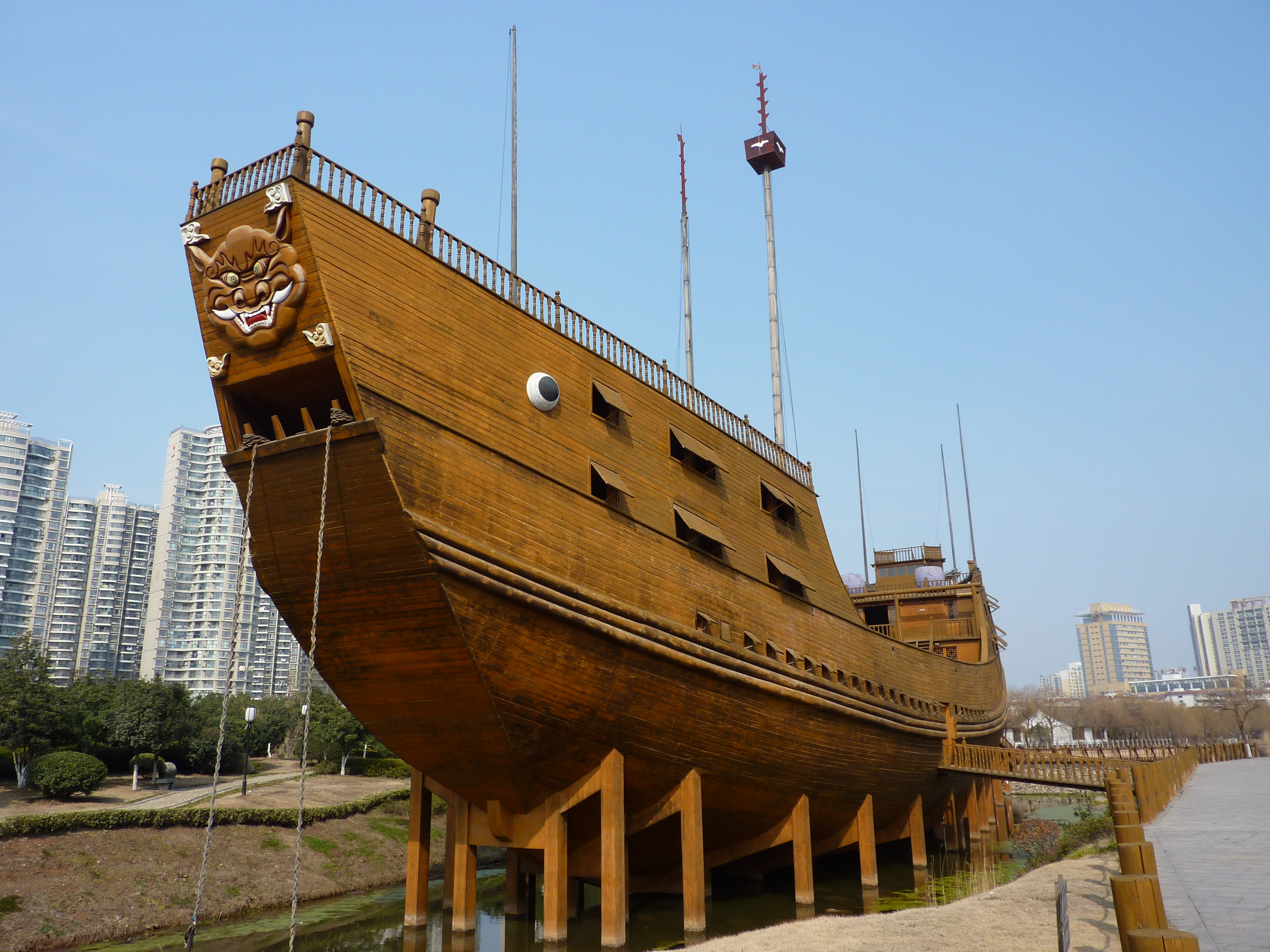 A full-size model of a "middle-sized treasure boat" (63.25 m long) of the Zheng He fleet at the Treasure Boat Shipyard site in Nanjing. Build ca. 2005 from concrete, lined with wooden planks.